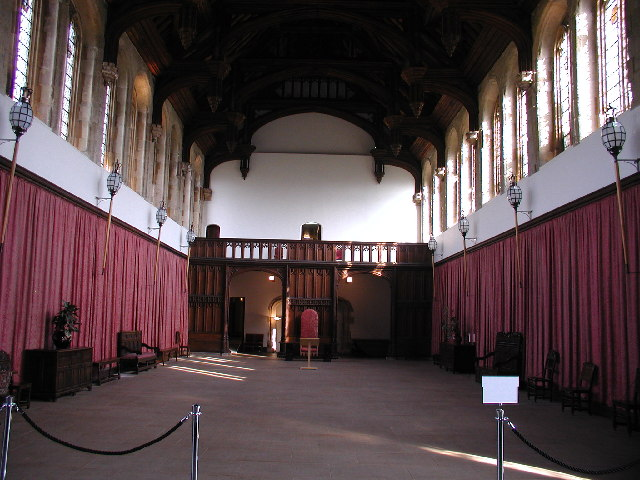 Eltham Palace. The medieval Great Hall